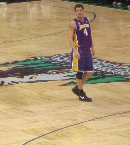 Luke Walton in a game versus the Minnesota Timberwolves in 2008.